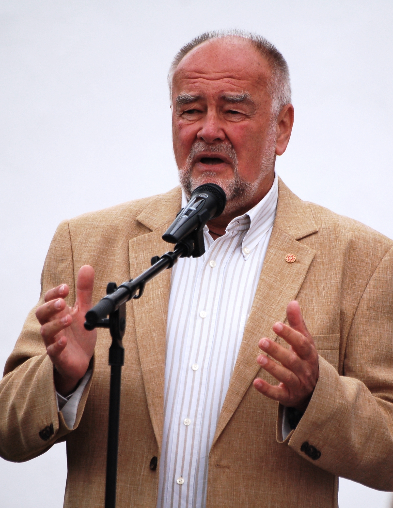 Gerhard Weißgrab, president of the Austrian Buddhist Association (ÖBR), at the 30 year anniversary of the Peace Pagoda Vienna.